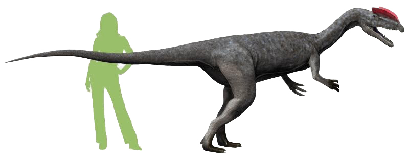 Restoration of Dilophosaurus wetherilli. Matches diagrams in Paul, G. S. (2010). The Princeton Field Guide to Dinosaurs. Pp. 75-76.